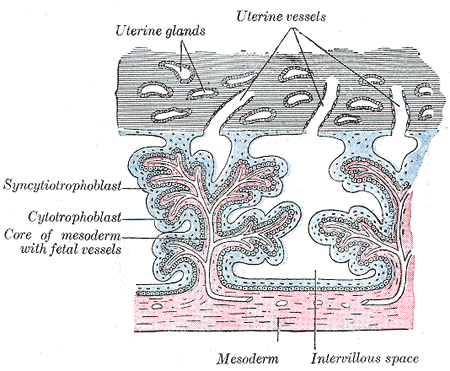 Tertiary chorionic villi. Diagrammatic. (Modified from Bryce.)